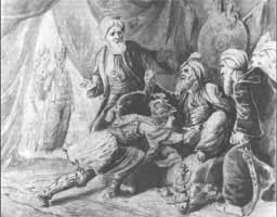 A. Jovanović: "Miloš ubija Murata". Muzej grada Beograda